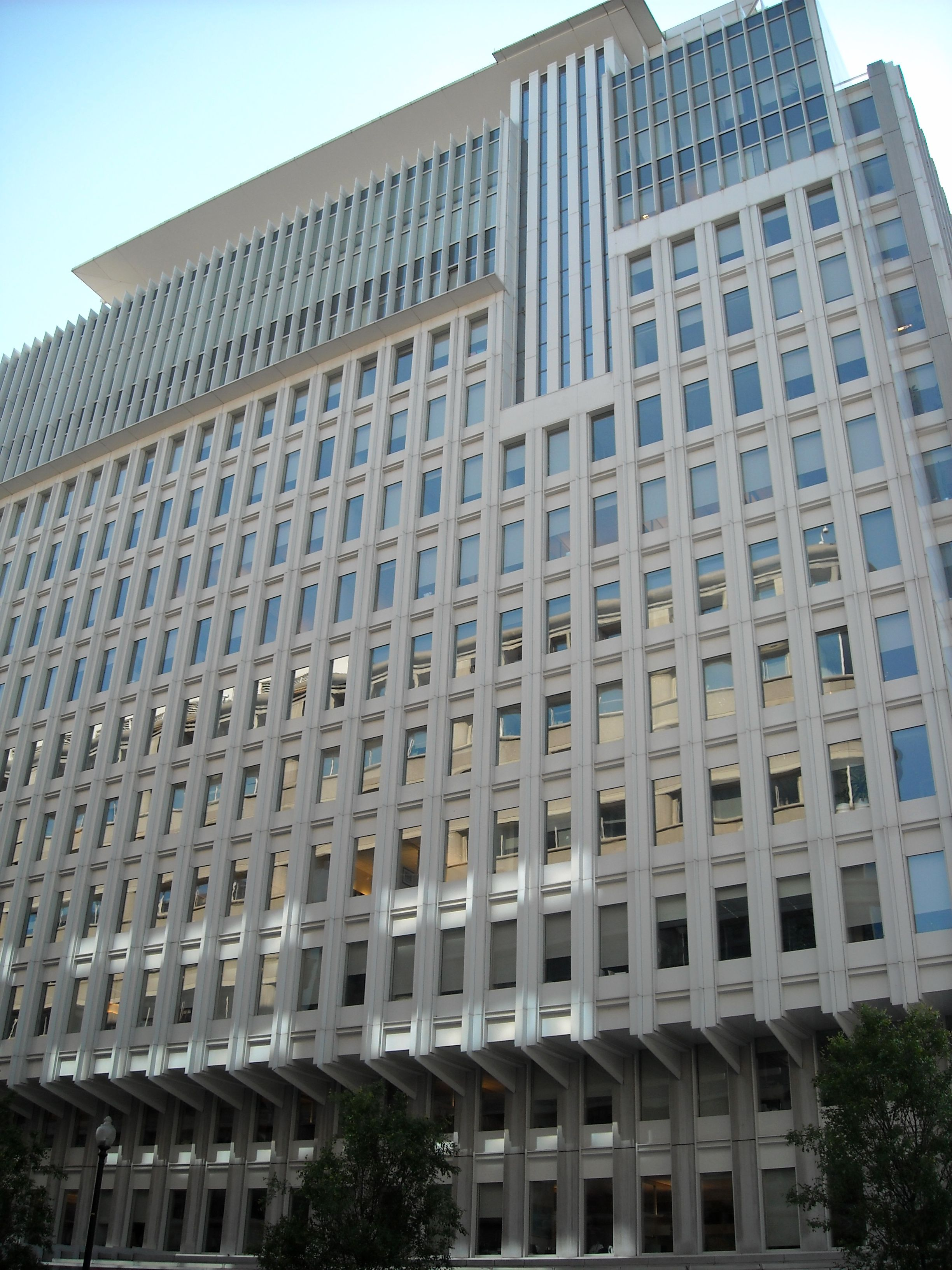 The World Bank Group headquarters building in Washington, D.C.